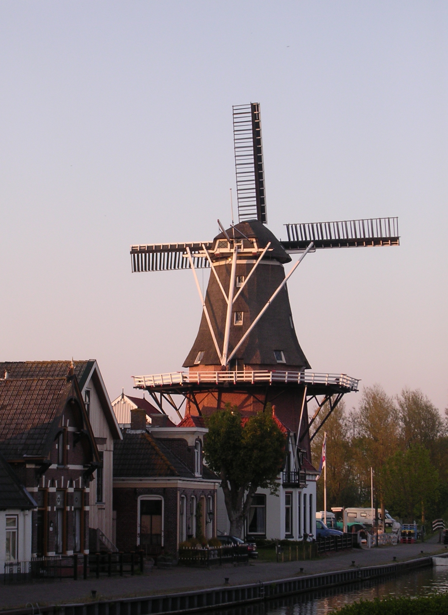 windmill in the village Burdaard